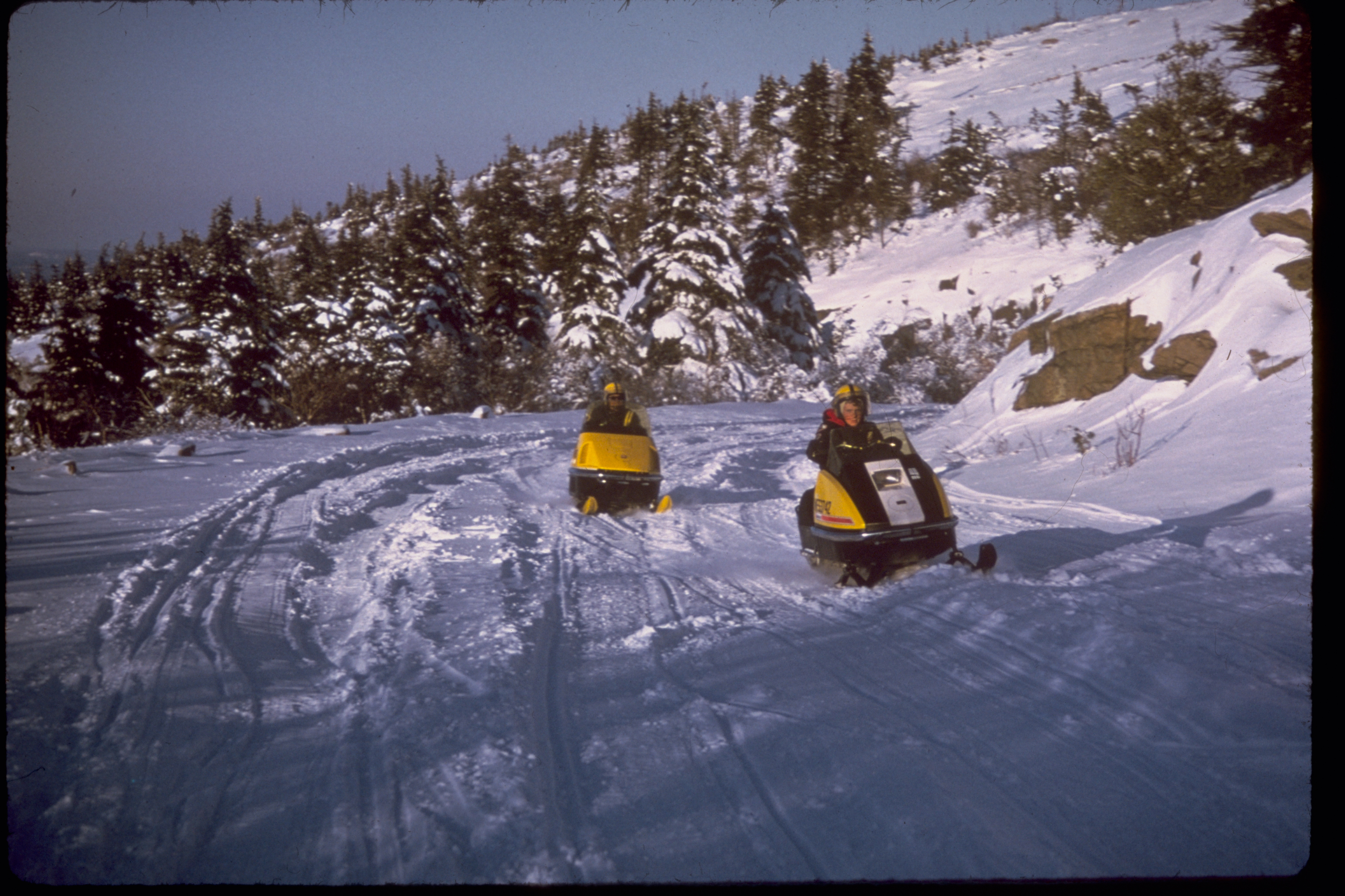 Location Acadia National Park Description People have been drawn to the rugged coast of Maine throughout history. Awed by its beauty and diversity, early 20th-century visionaries donated the land that became Acadia National Park. The park is home to many plants and animals, and the tallest mountain on the U.S. Atlantic coast. Today visitors come to Acadia to hike granite peaks, bike historic carriage roads, or relax and enjoy the scenery.